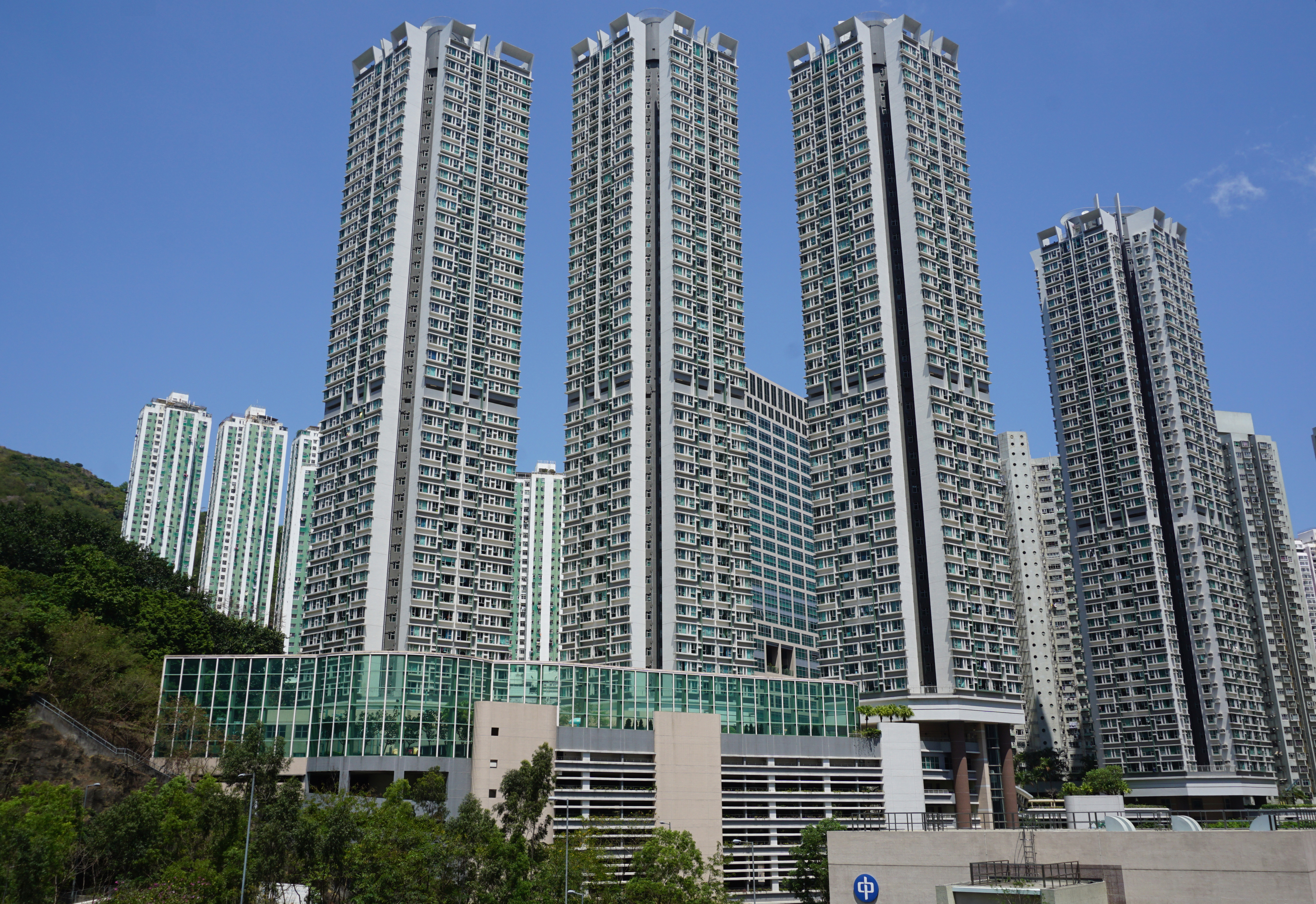 Summit Terrace in Tsuen Wan, Hong Kong.